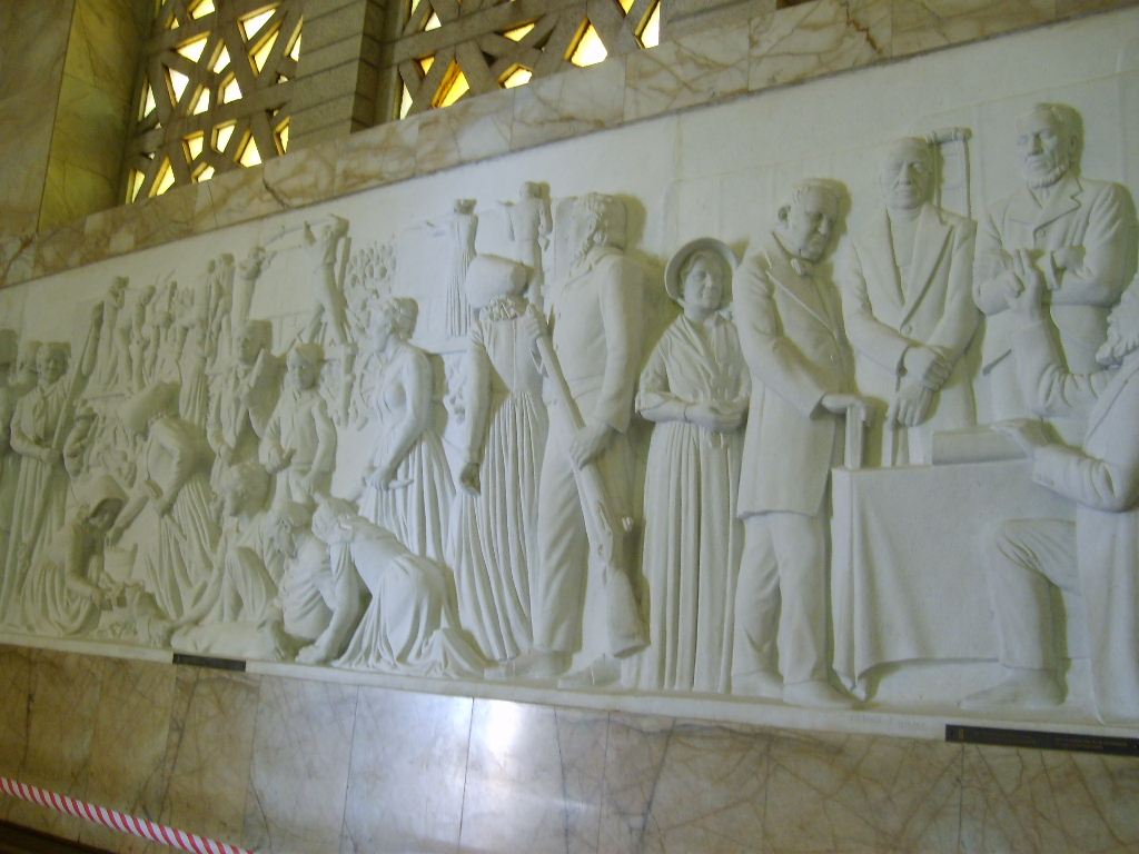 Part of the historical frieze in the hall of heroes of the Voortrekker Monument, Pretoria The Battle of Vegkop is depicted on the left, and to the right, the swearing-in ceremony of Piet Retief as Voortrekker governor